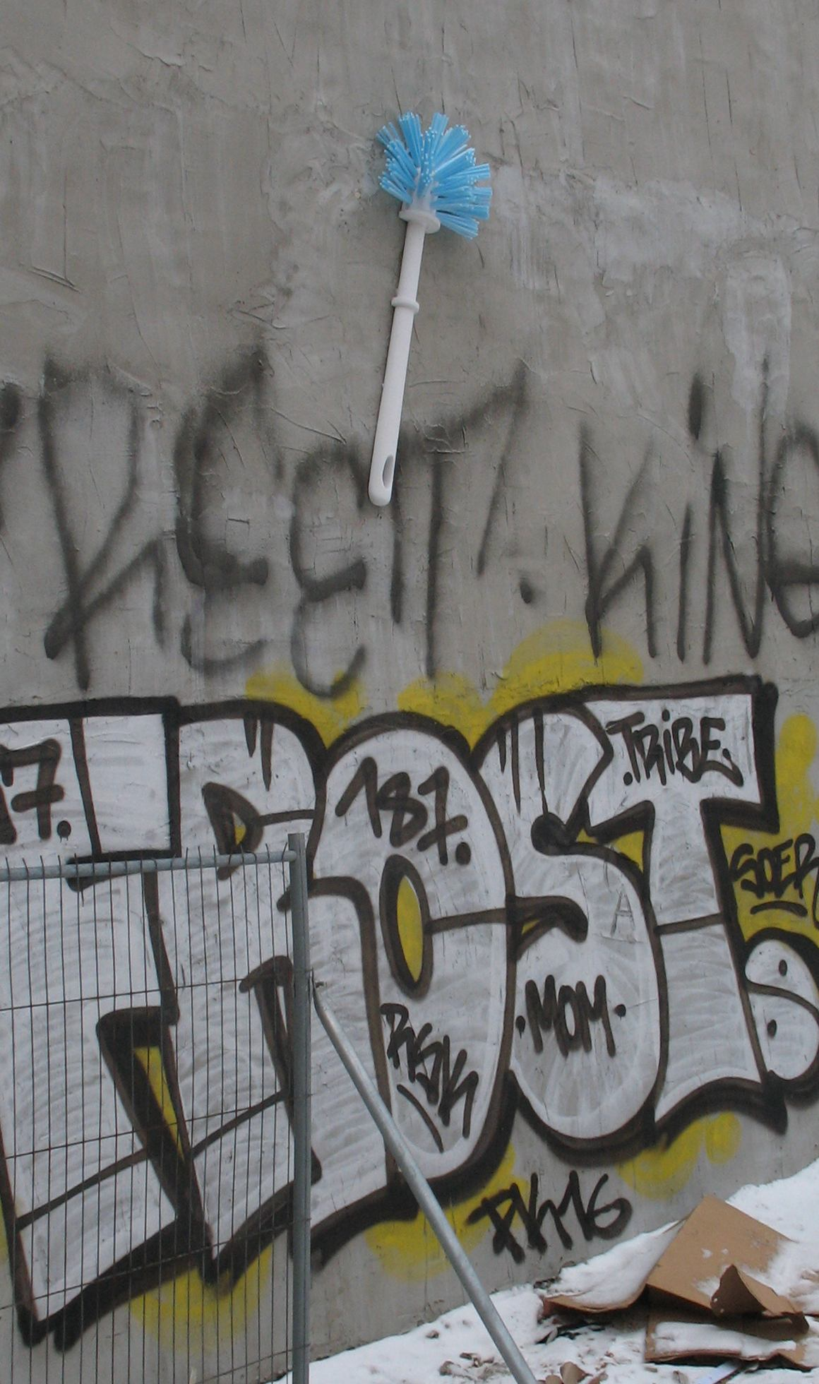 Toilet_brush in Hamburg-Altona, Germany